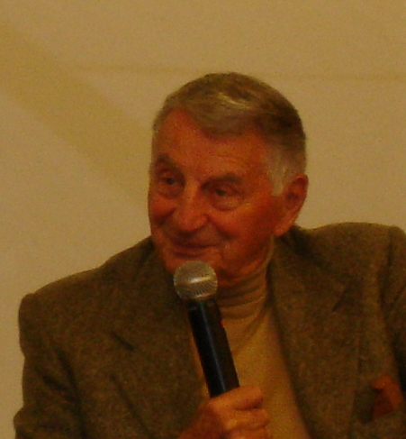 Demeter Bitenc on a book fair conference in Cankar Hall, Ljubljana, Slovenia